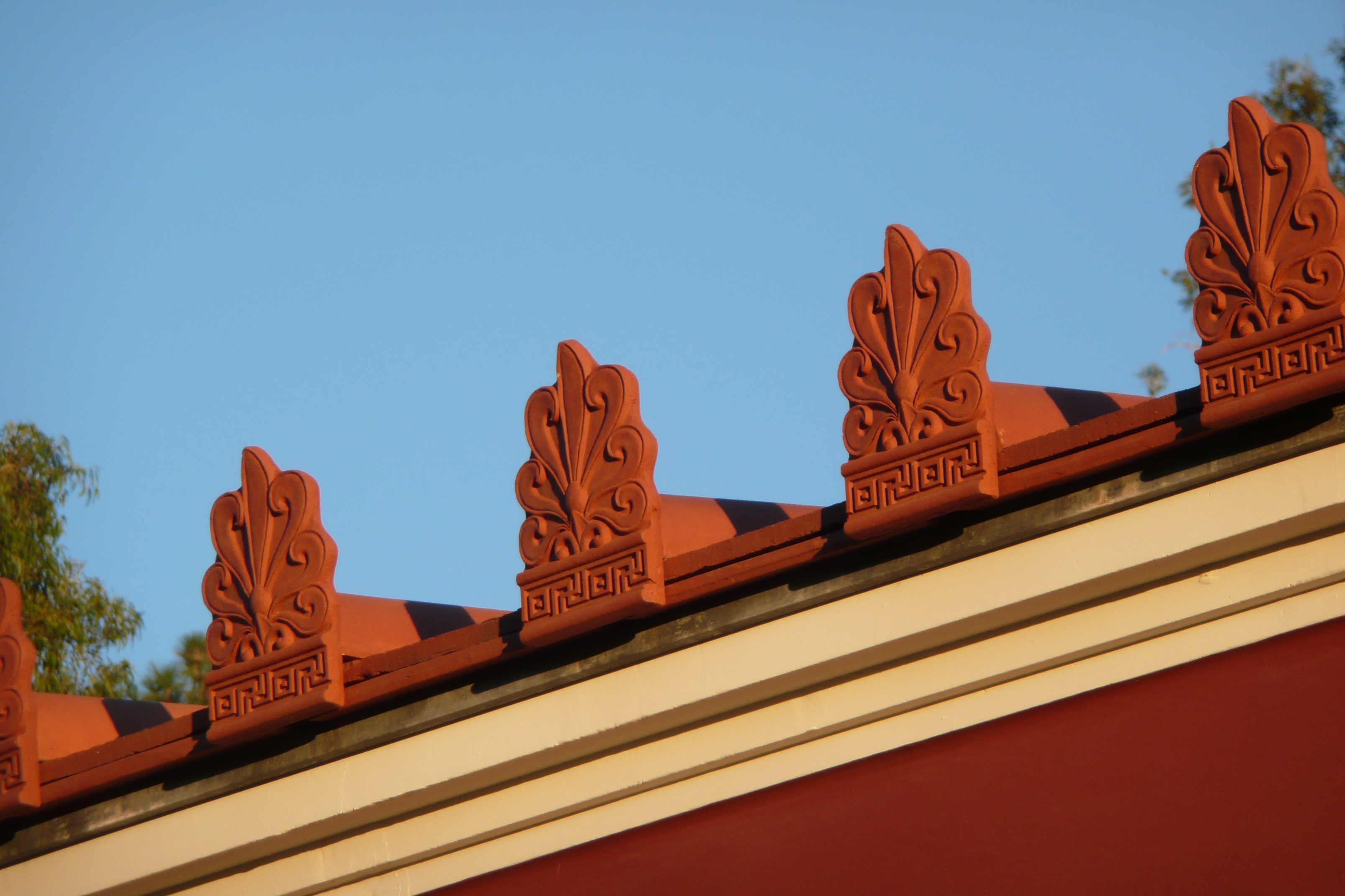 Acroterion - Getty Villa - Outer Peristyle.